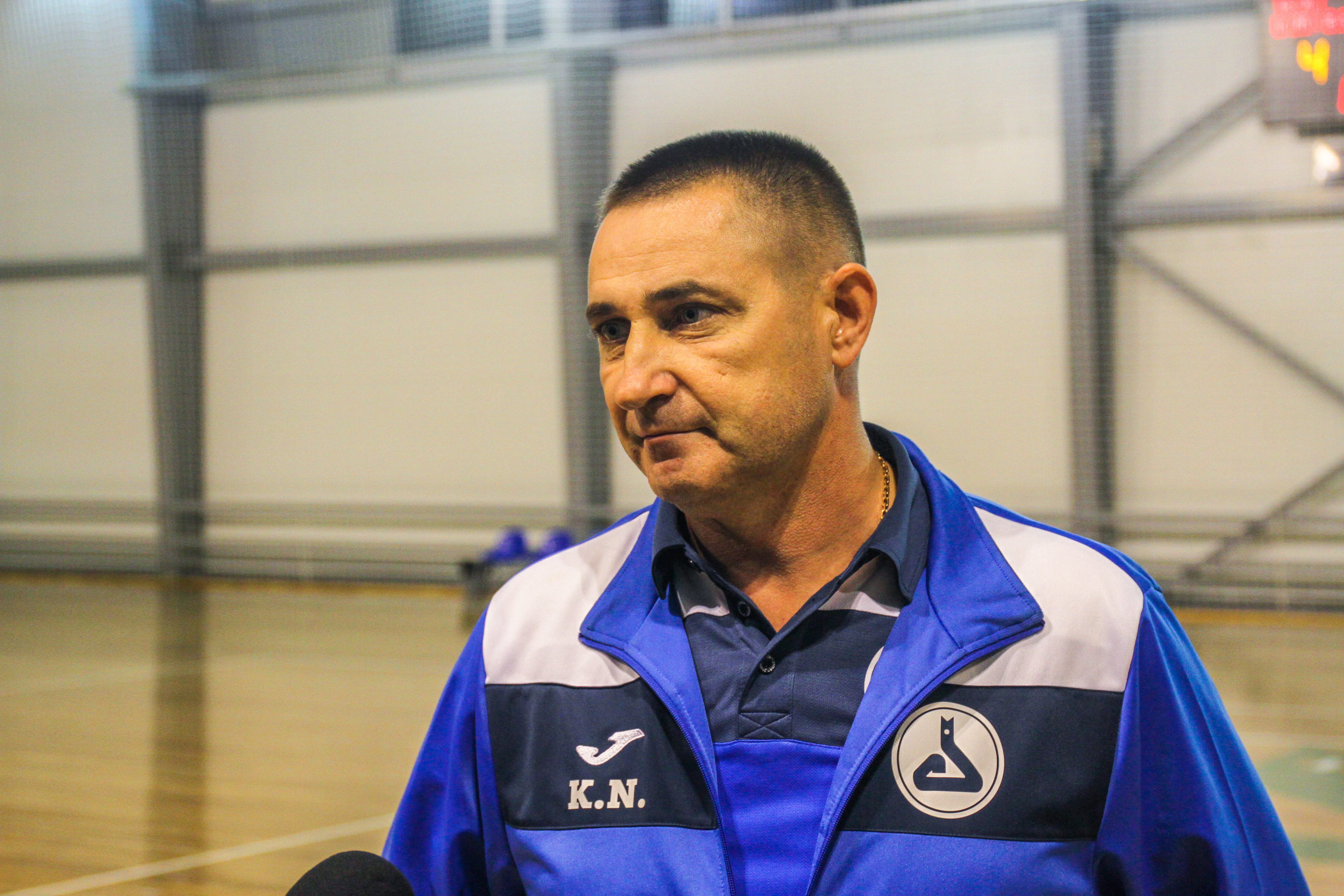 Chief coach of Ukrainian futsal club PZMS Nicholas Kudatskyy